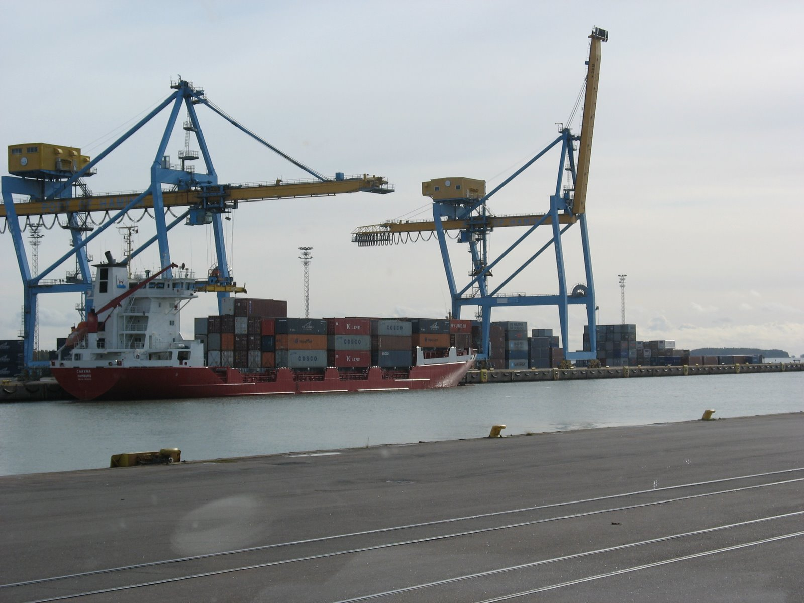 Port of Hamina, Finland. Cargo ship Carina (IMO 8908545)